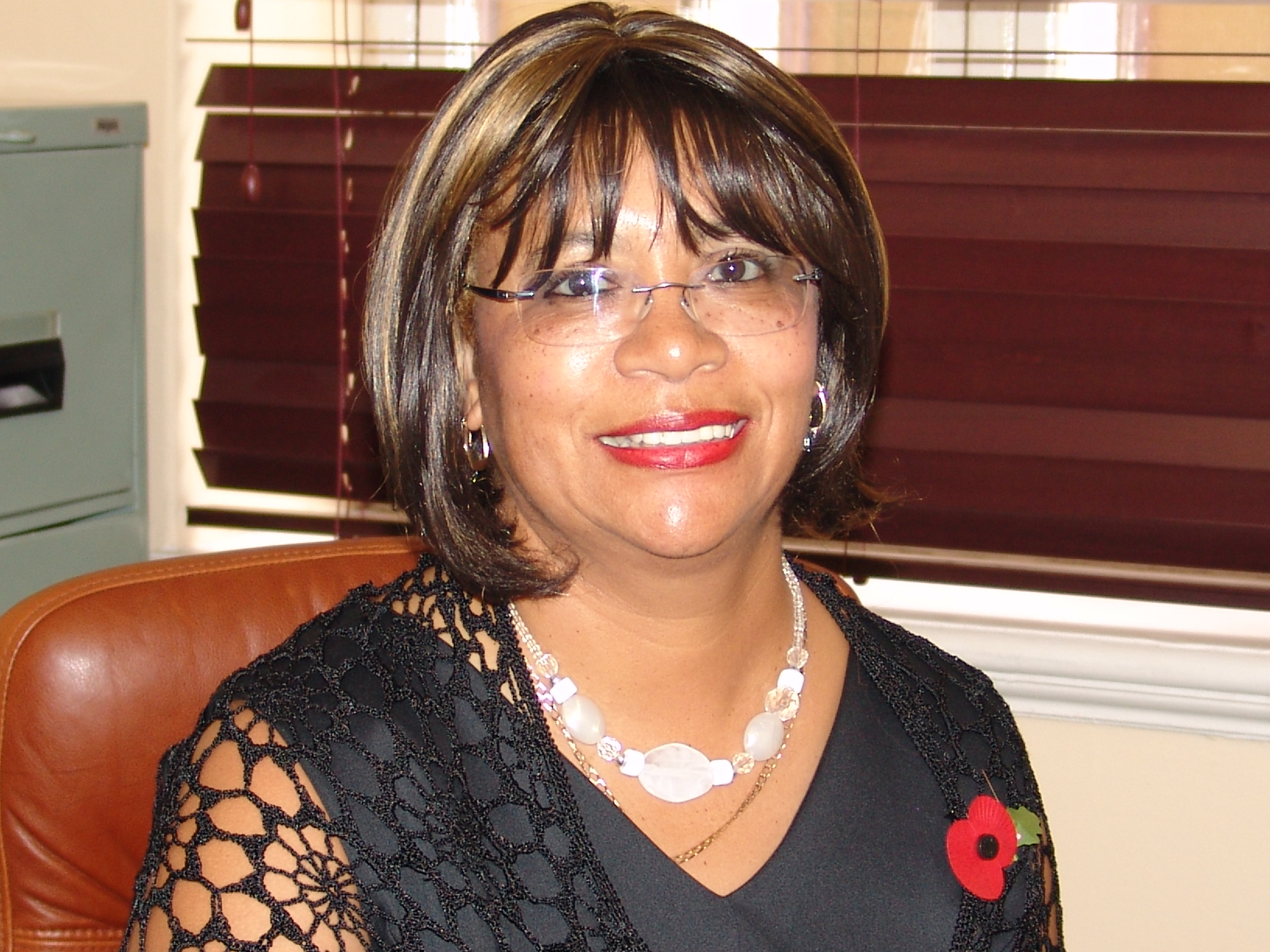 Beverley Abrahams then a DA MP, now an ANC MP